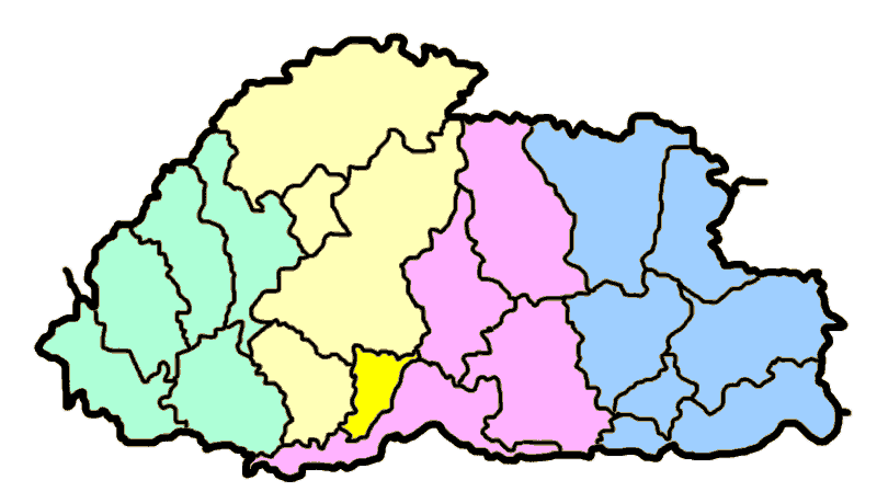 Tsirang district + glance of 4 dzongdey. Tsirang (old spelling Chirang)